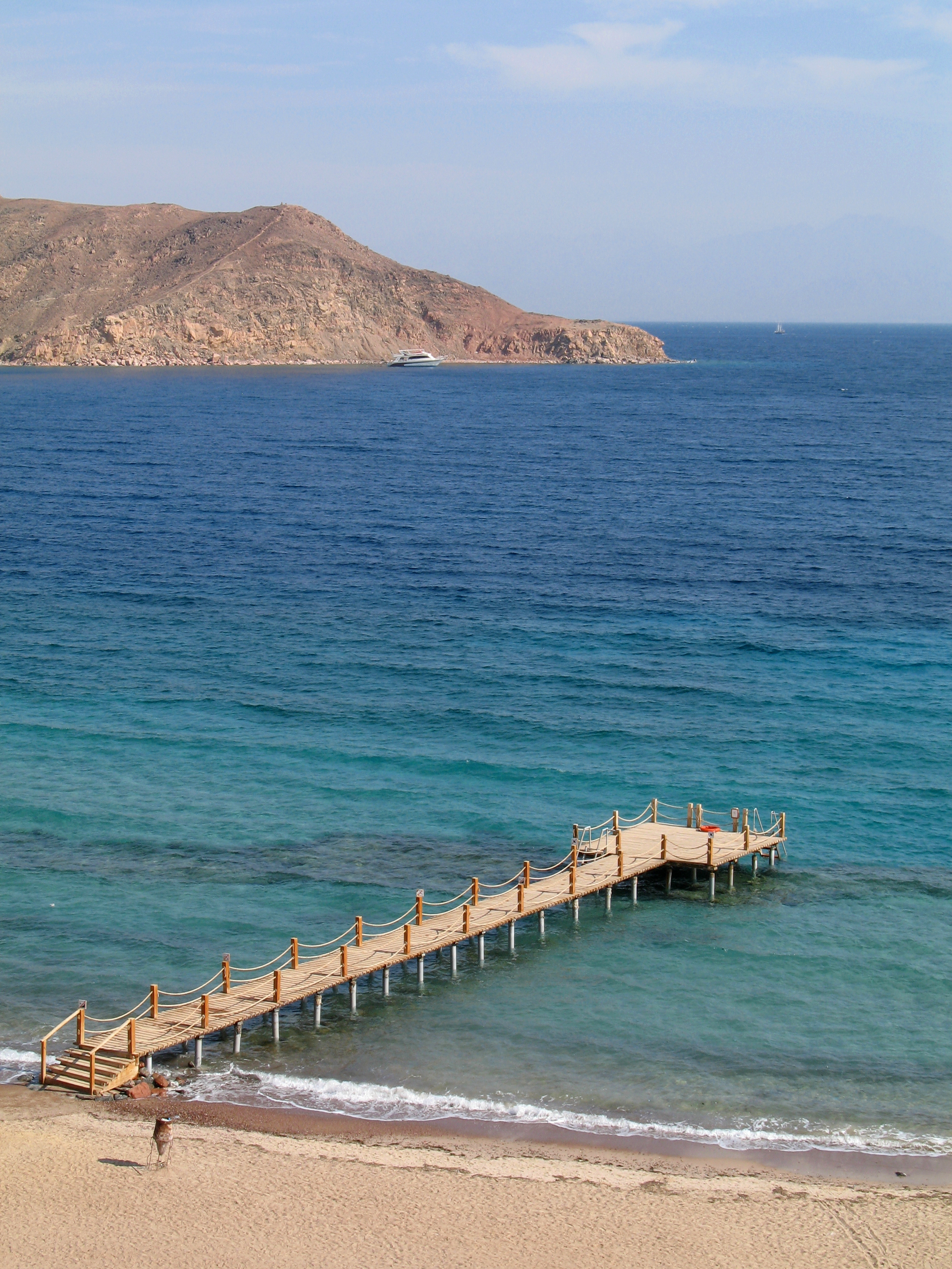 Taba Heights (Sinai, Egypt): the Gulf of Aqaba